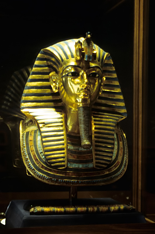 Mask of Tutankhamun, Egyptian Museum, Cairo, Egypt